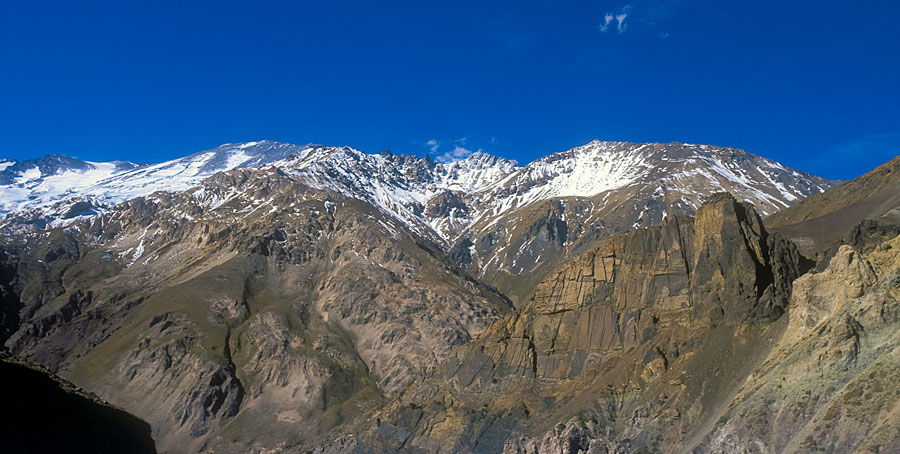 The San Jose volcano seen from a location across Baños Morales in the Maipo river canyon.